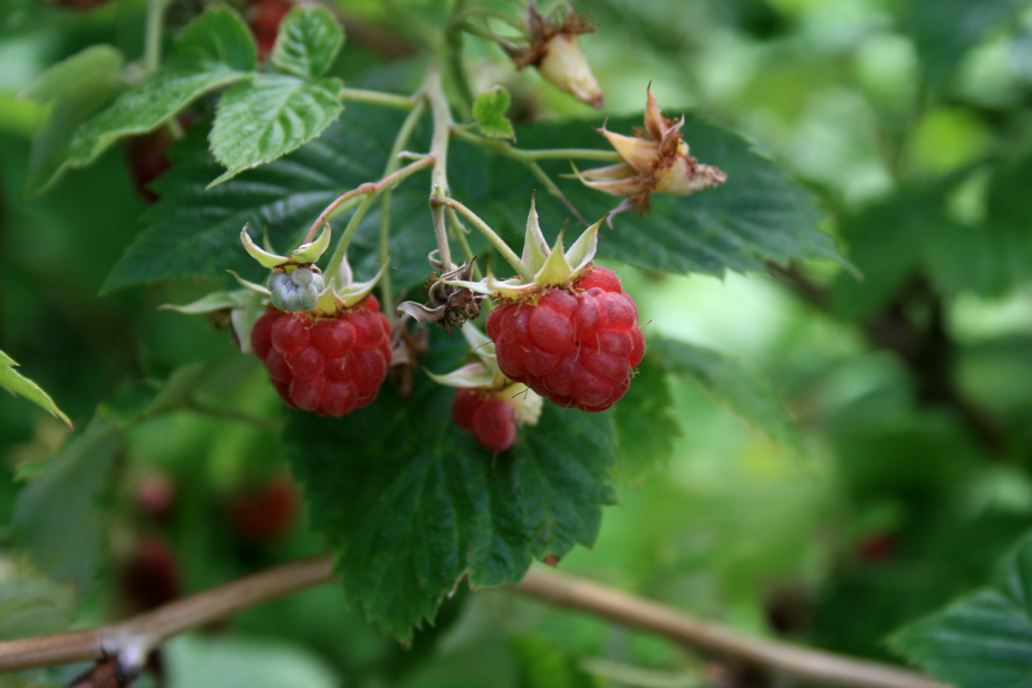 Raspberry (cs: malina) photo june 2007 Jaroměř, Czech republic, Europe